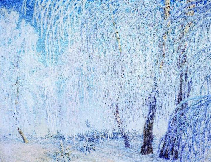 The Frost (Иней), 1905